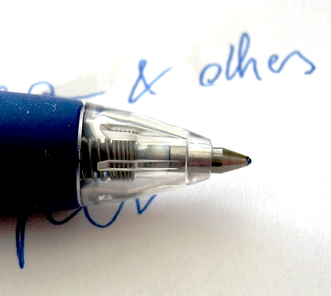 Detail shot of the cylindric tip of a common gel pen Makroaufnahme der Spitze eines herkömmlichen Gelschreibers.